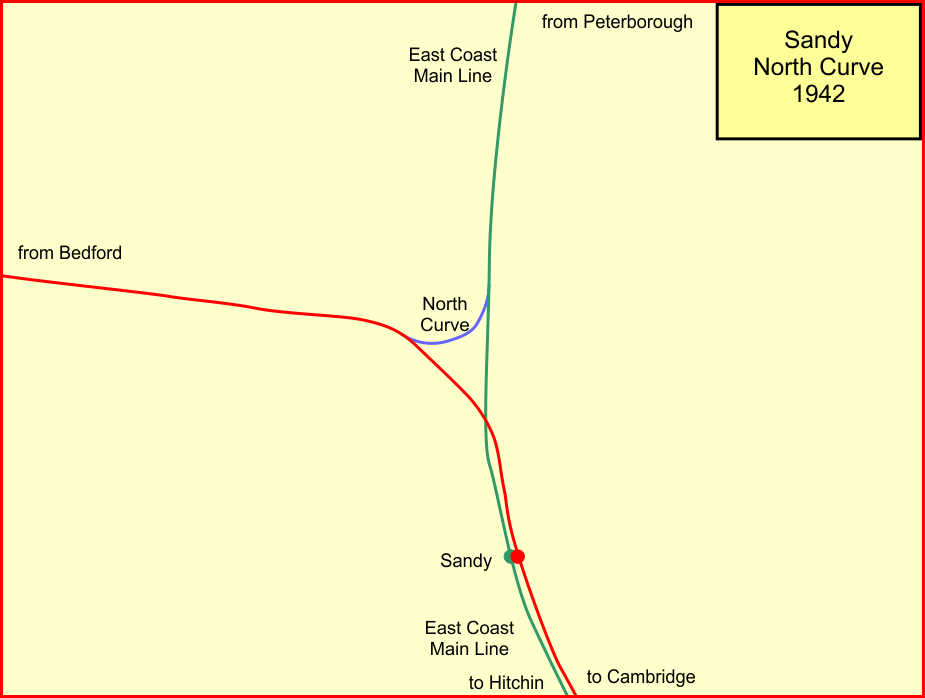 Diagram of the North Curve at Sandy on the Oxford to Cambridge Railway in 1942